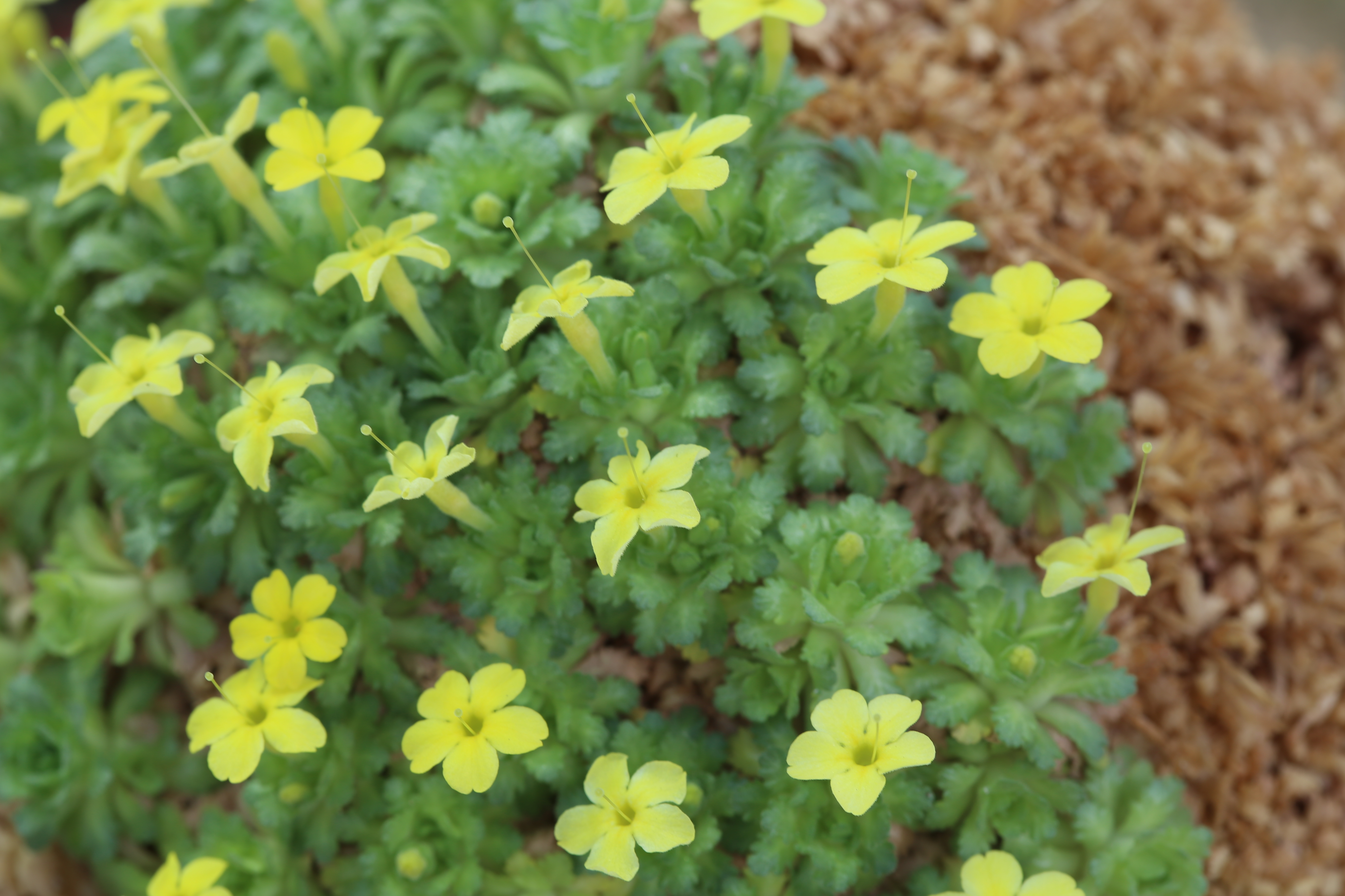 Dionysia diapensiifolia at Gothenburg Botanical Garden 2015. Plant id: slize 2J3-2